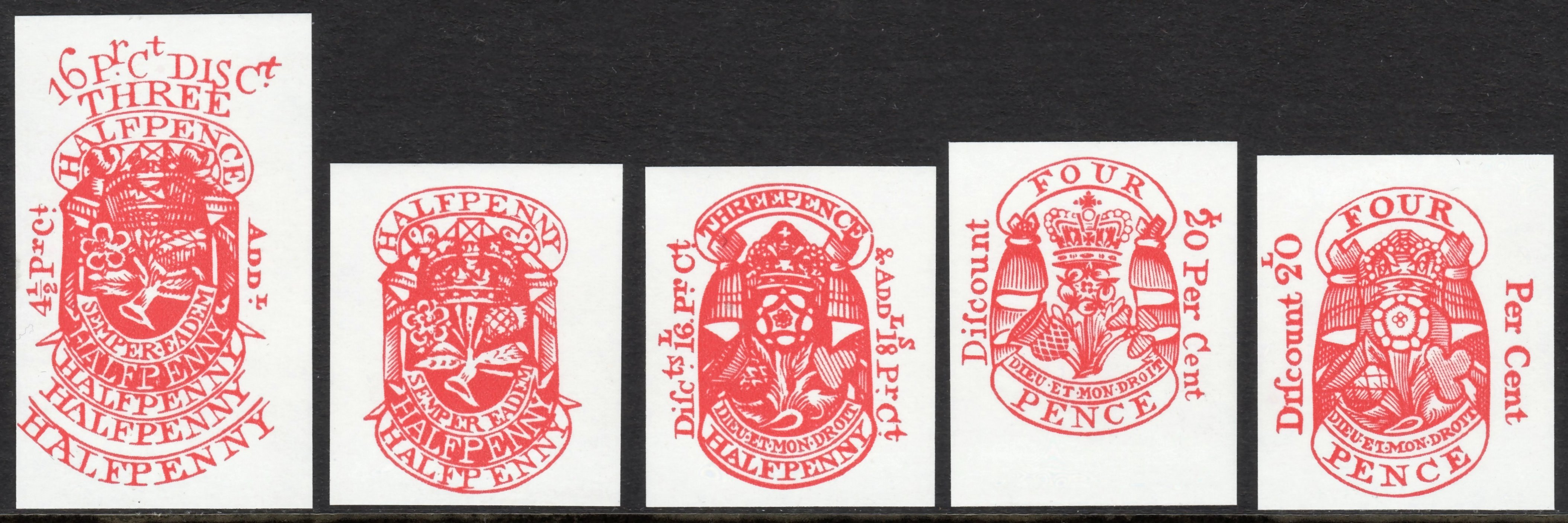 Reproduction newspaper tax stamps 1785-1815 from the Royal Mail 'The Story of the Times' prestige stamp book 1985.